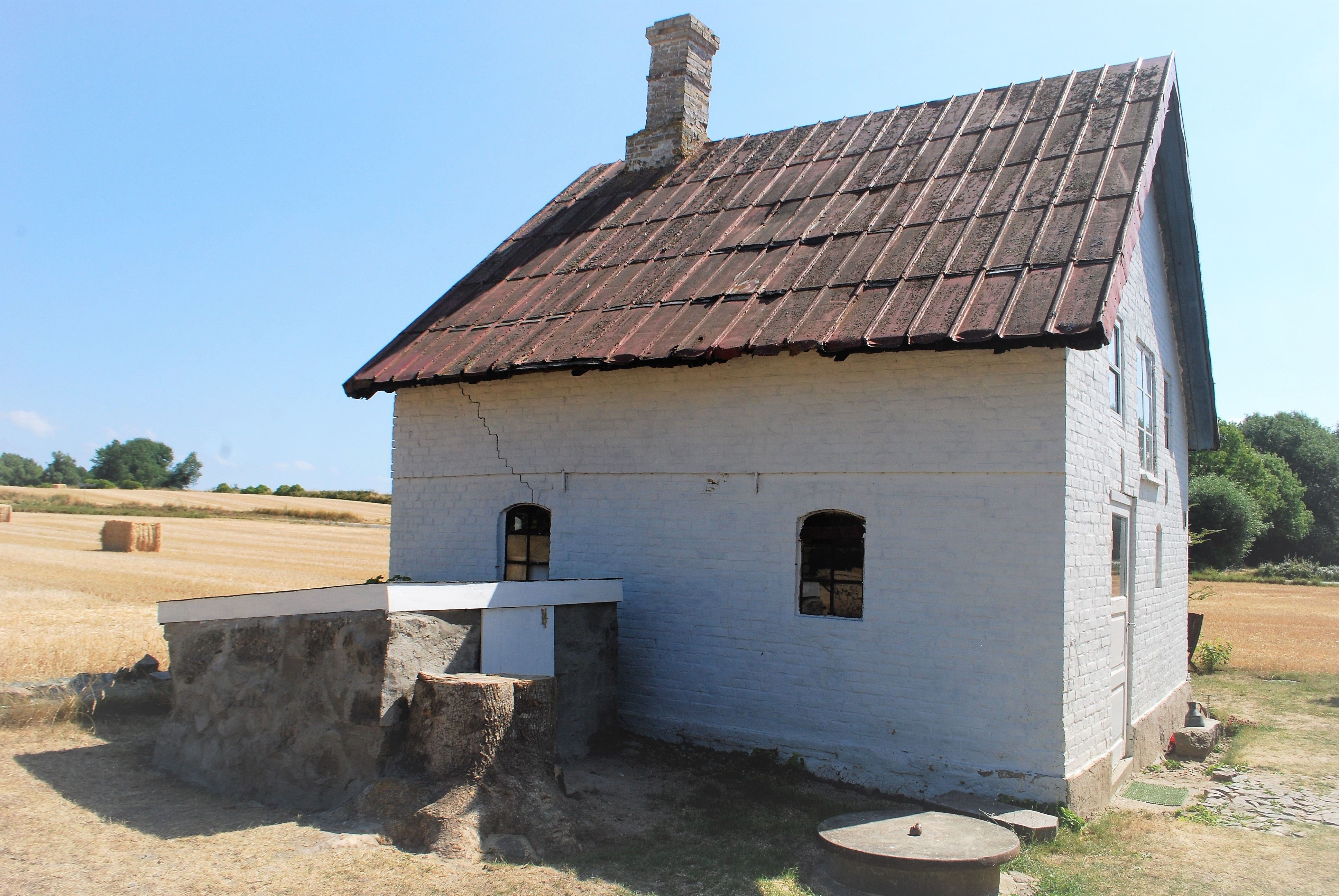 Skovby, Ærø, Denmark